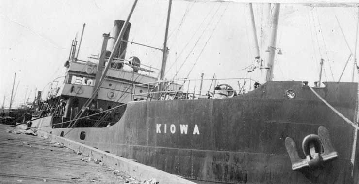 Cargo ship SS Kiowa in port, prior to her 1918-1919 US Navy service as USS Kiowa (ID-1842)